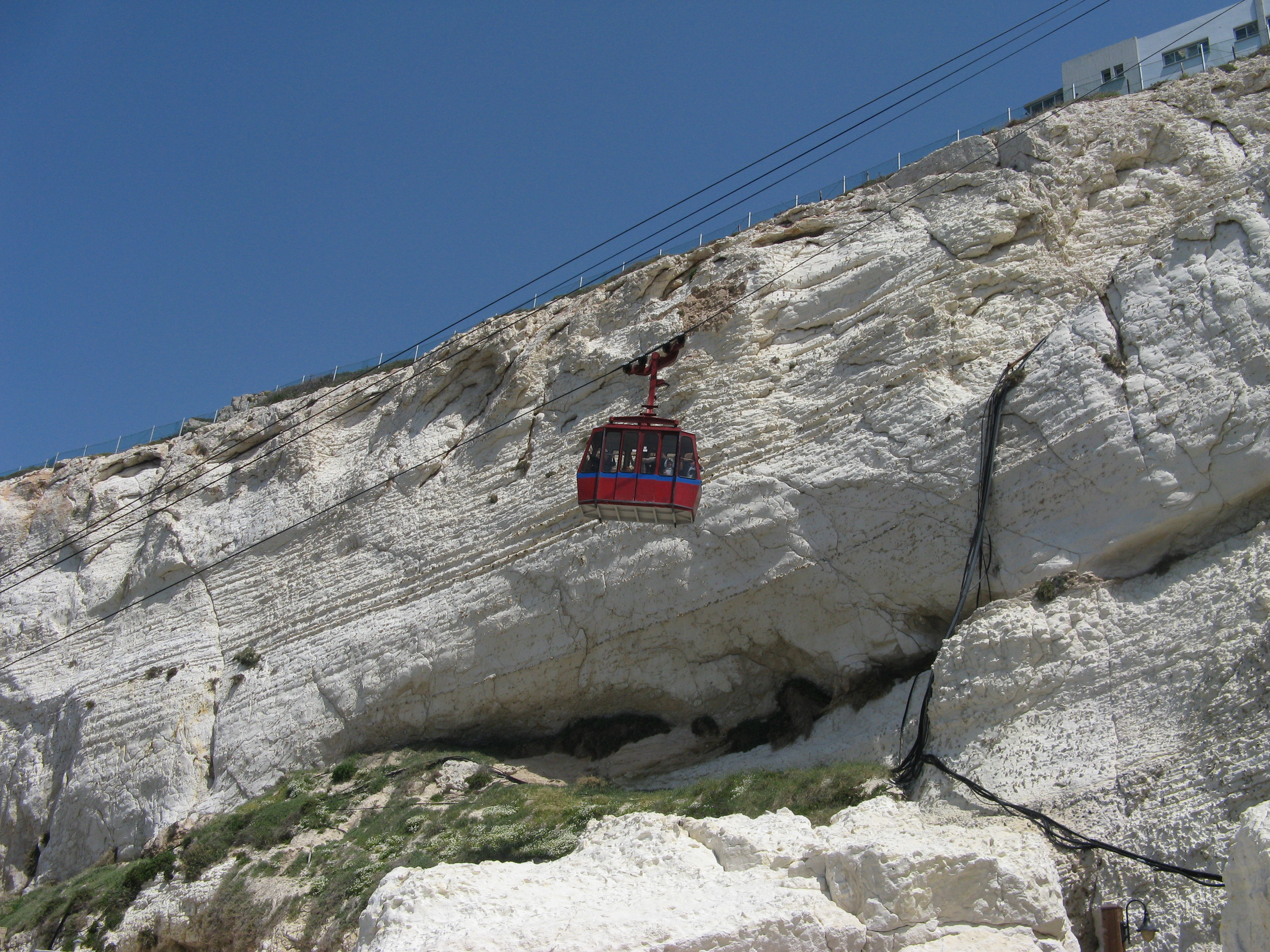 Cable Car Rosh Hanikra